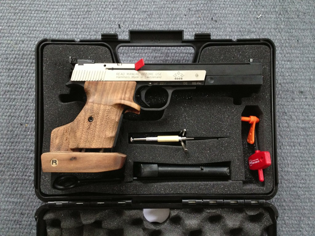 Hämmerli X-esse, a Swiss small caliber target pistol chambered for .22 LR.